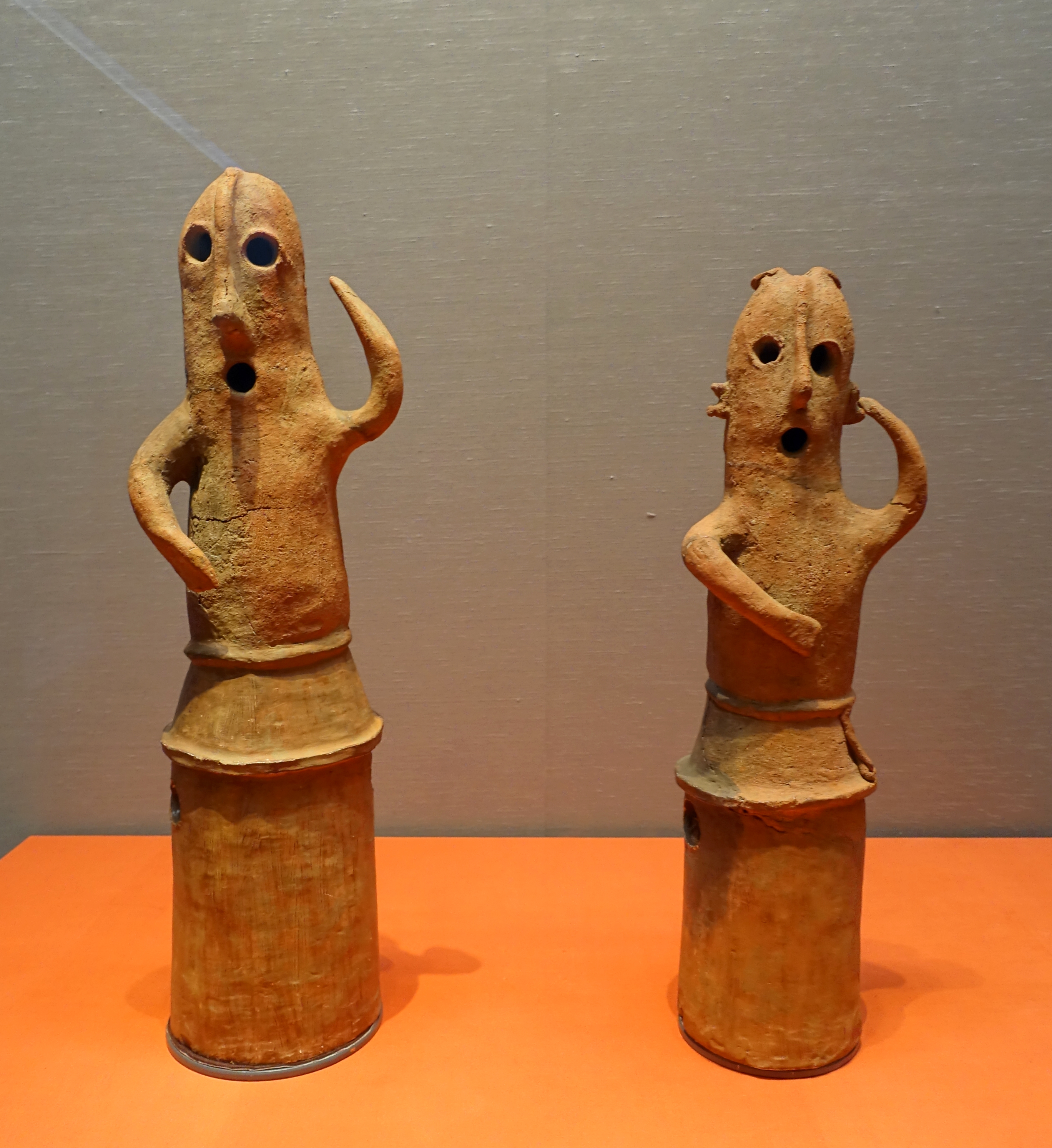 Exhibit in the Tokyo National Museum - Tokyo, Japan.